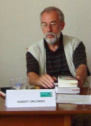 prof Hubert Orłowski - polski germanista